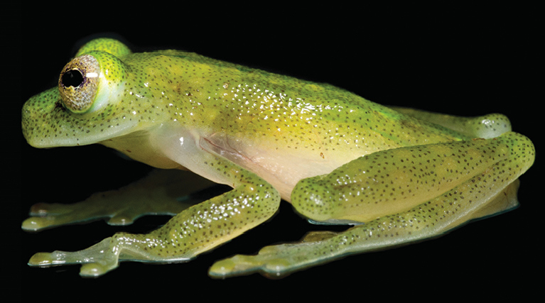 Hyalinobatrachium yaku in life. Adult male, paratype, QCAZ 55628.